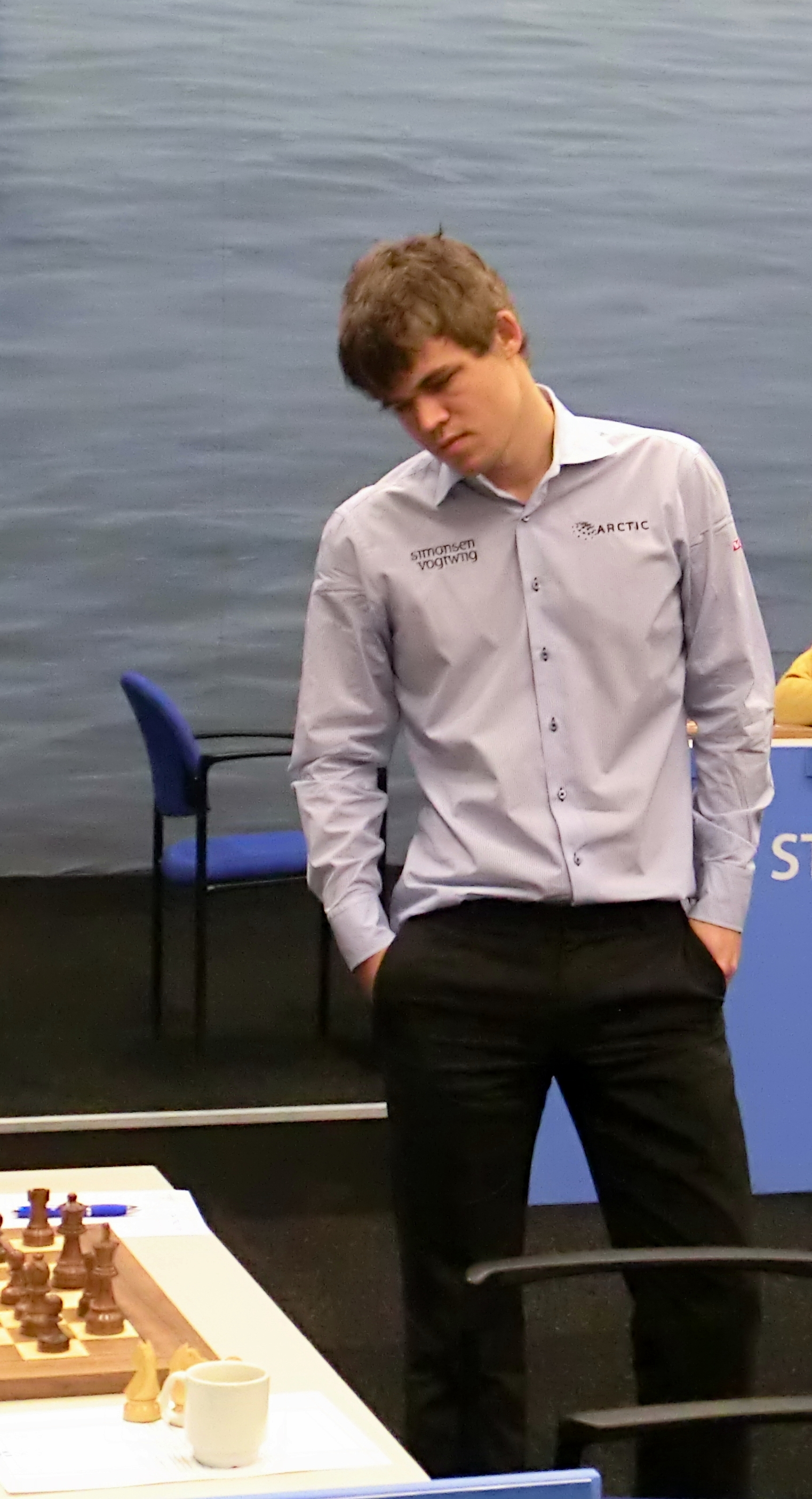 Magnus Carlsen, chess grandmaster from Norway